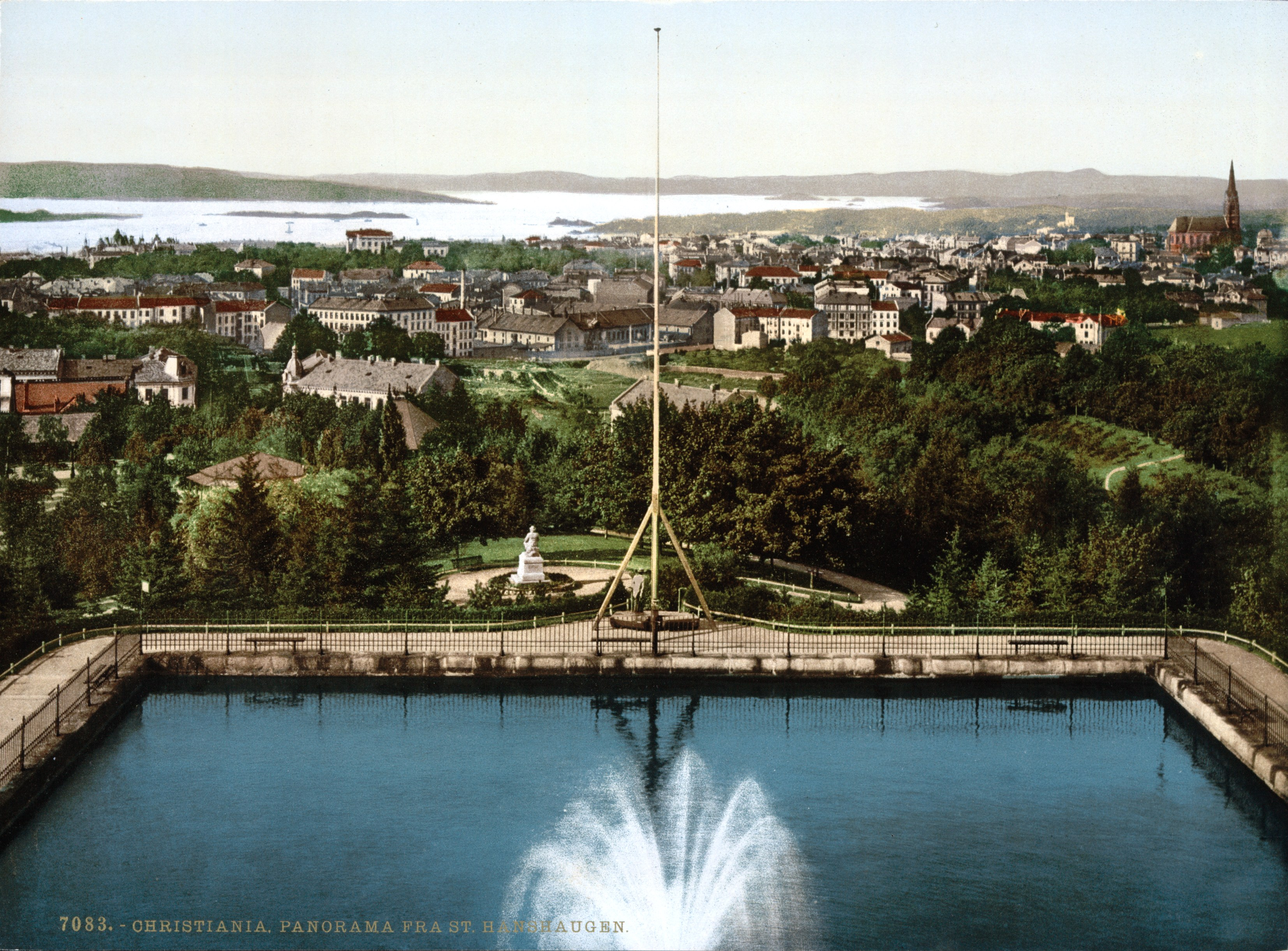 Christiania. Panorama from St. Hanshaugen. ca. 1890–1900. Buildings visible include Akershus Fortress (upper left, next to river), the royal palace (upper center left, next to river), white statue of Bjørnstjerne Bjørnson (center left, near fountain), Oscarshall (upper right), and Uranienborg Church (upper right, with spire above horizon).